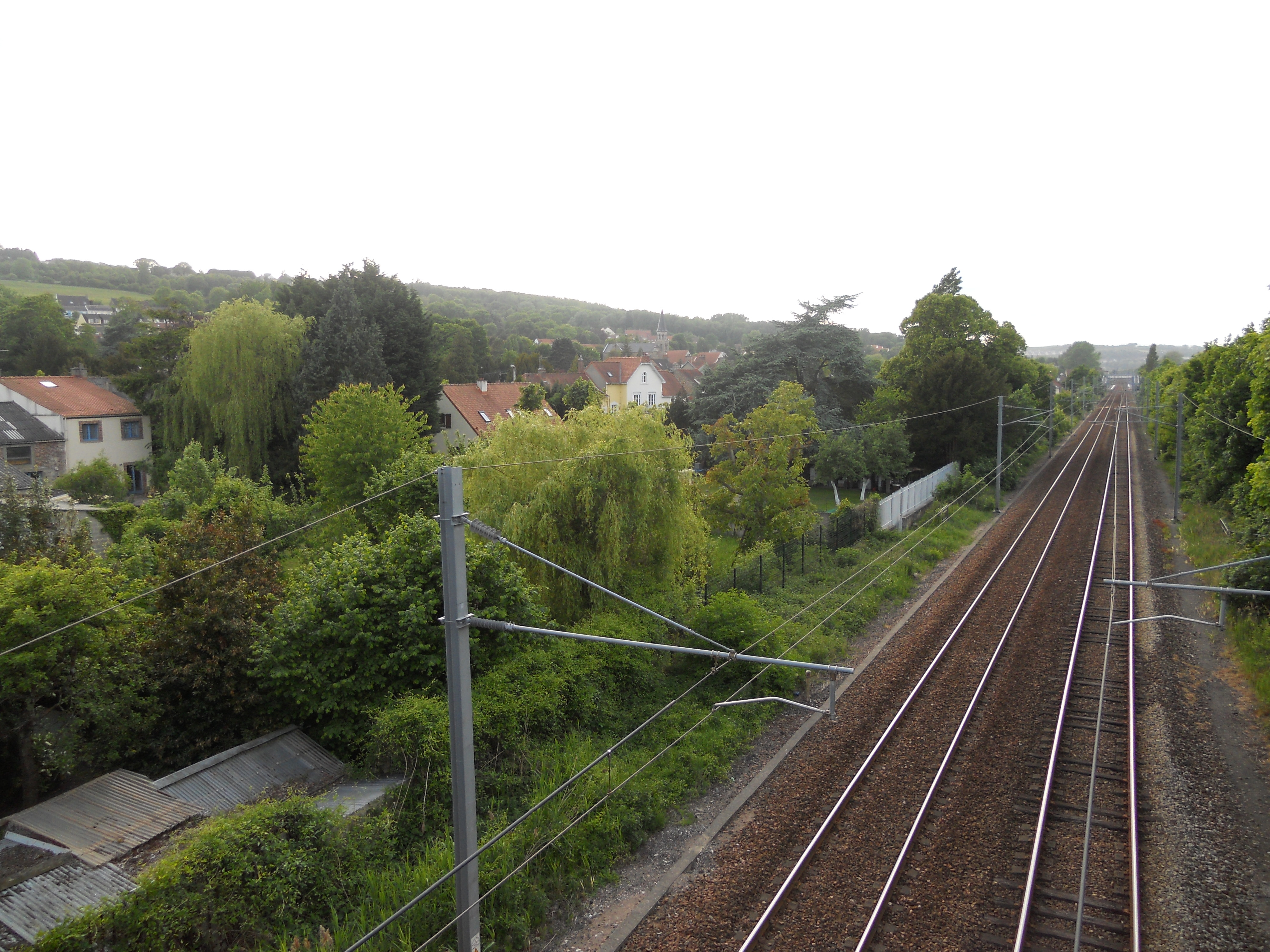 Station of Pont-de-Briques